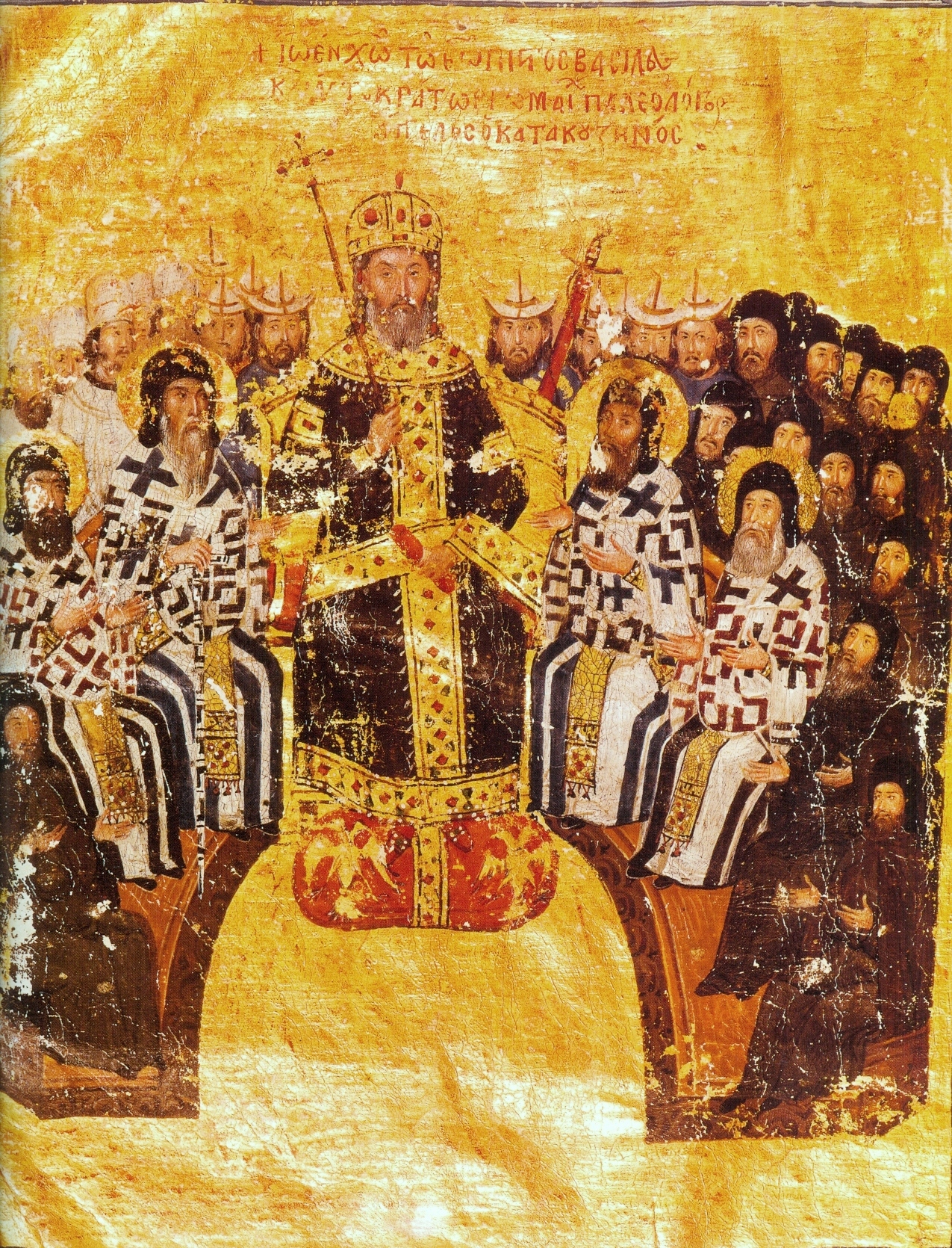 Byzantine Emperor John VI Kantakouzenos presiding over a synod. The Hesychast Council of Constantinople, 1351. Constantinople, 1370-75, paint on parchment, Greek Manuscript 1242, fol.5 v, 33,5x24 cm, Bibliothèque nationale de France, Paris.